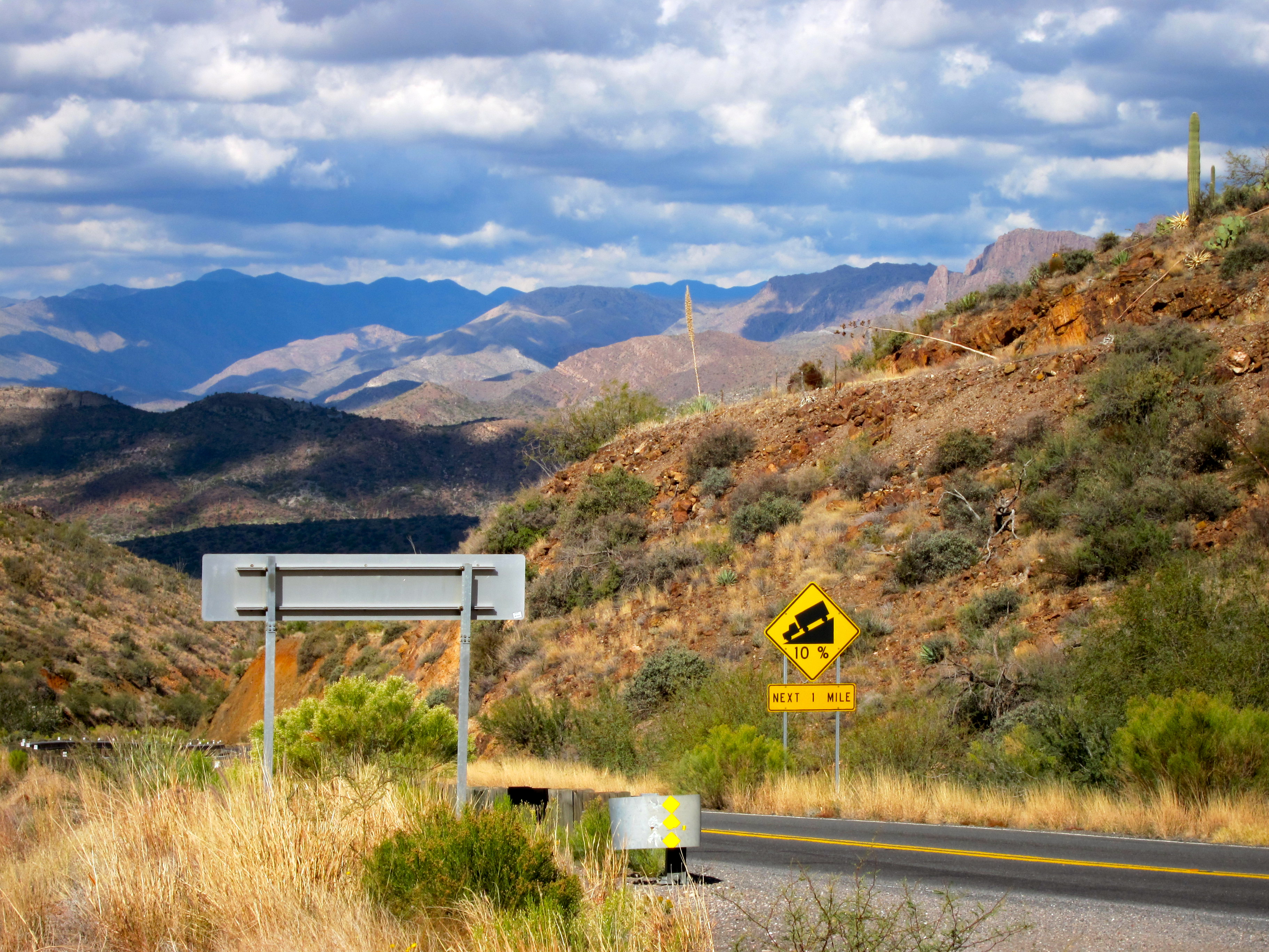 View of site of Reymert, Arizona from US-60